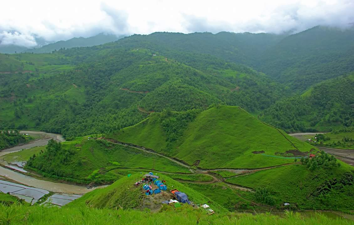 Huishu Village Landscape Scenery